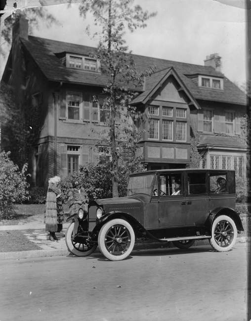 211 Arden Park Blvd, Detroit, 1921. The photo was used in Packard Automotive advertisingCar is a 1921-1922 Packard Single Six series 116 (first series) 5-pass. sedan (style #192) with a 52 bhp six cylinder engine.